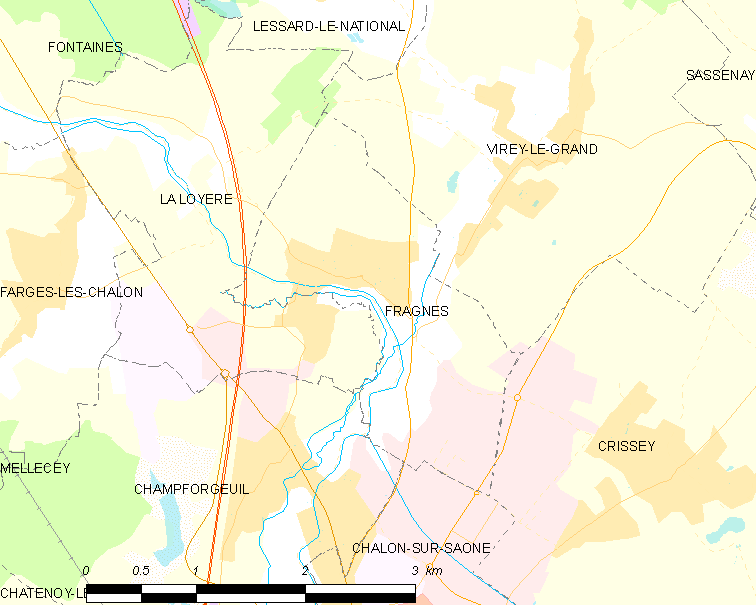 Map of French municipality